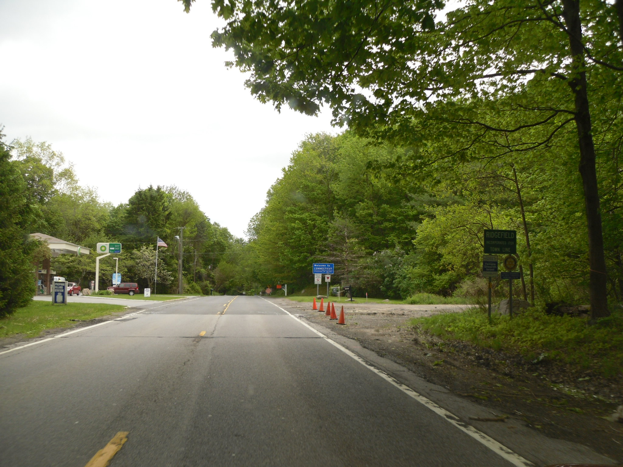 New York State Route 35 at the Connecticut state line, where it continues as Connecticut Route 35 in the town of Lewisboro.